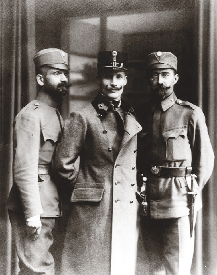 Ivan Boberskyi, Mykhailo Voloshyn, Longyn Tsehelskyi - Ukrainian politicians of ZUNR (1918-1919 in uniforms of Ukrainian Army 1918 ( Sitchovi Strilci)